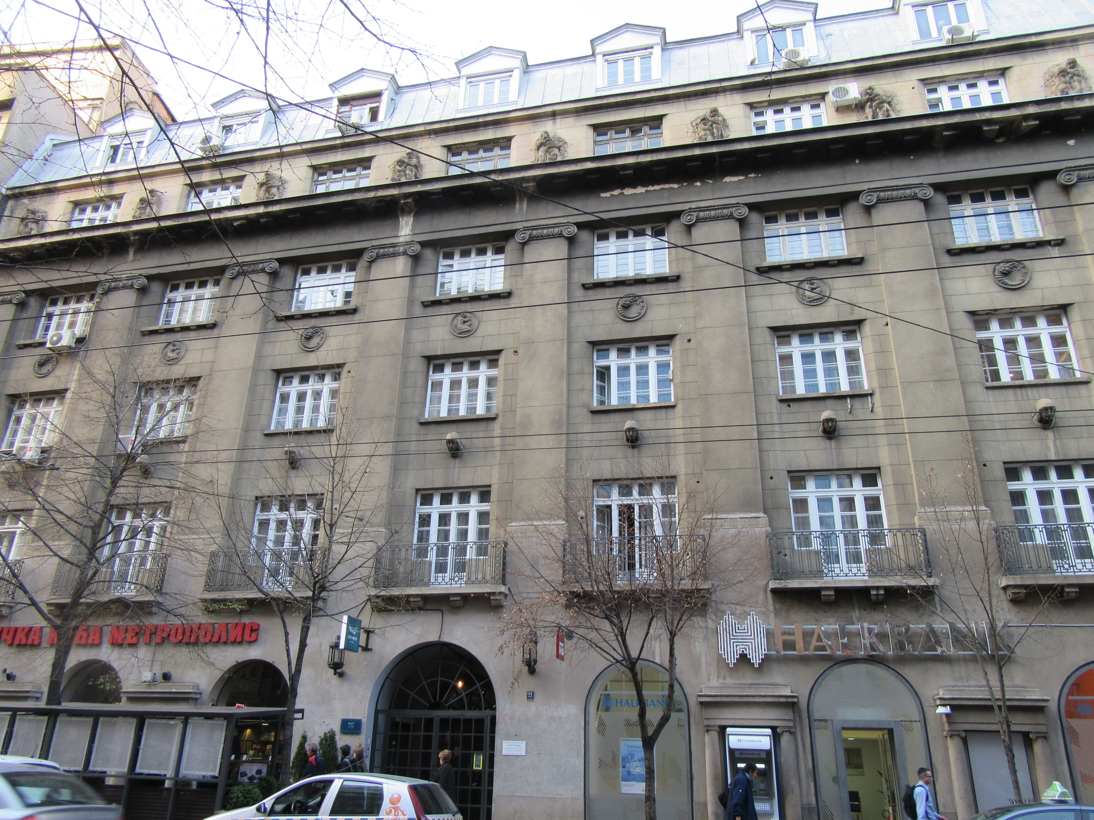 Makedonska street, Belgrade, Serbia, 2019. Srpski (latinica): Makedonska ulica, Beograd, Srbija, 2019.